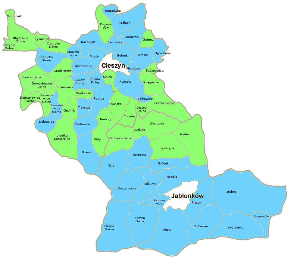 Austria-Hungary 1911 elections results, Walhbezirk 13, round 2